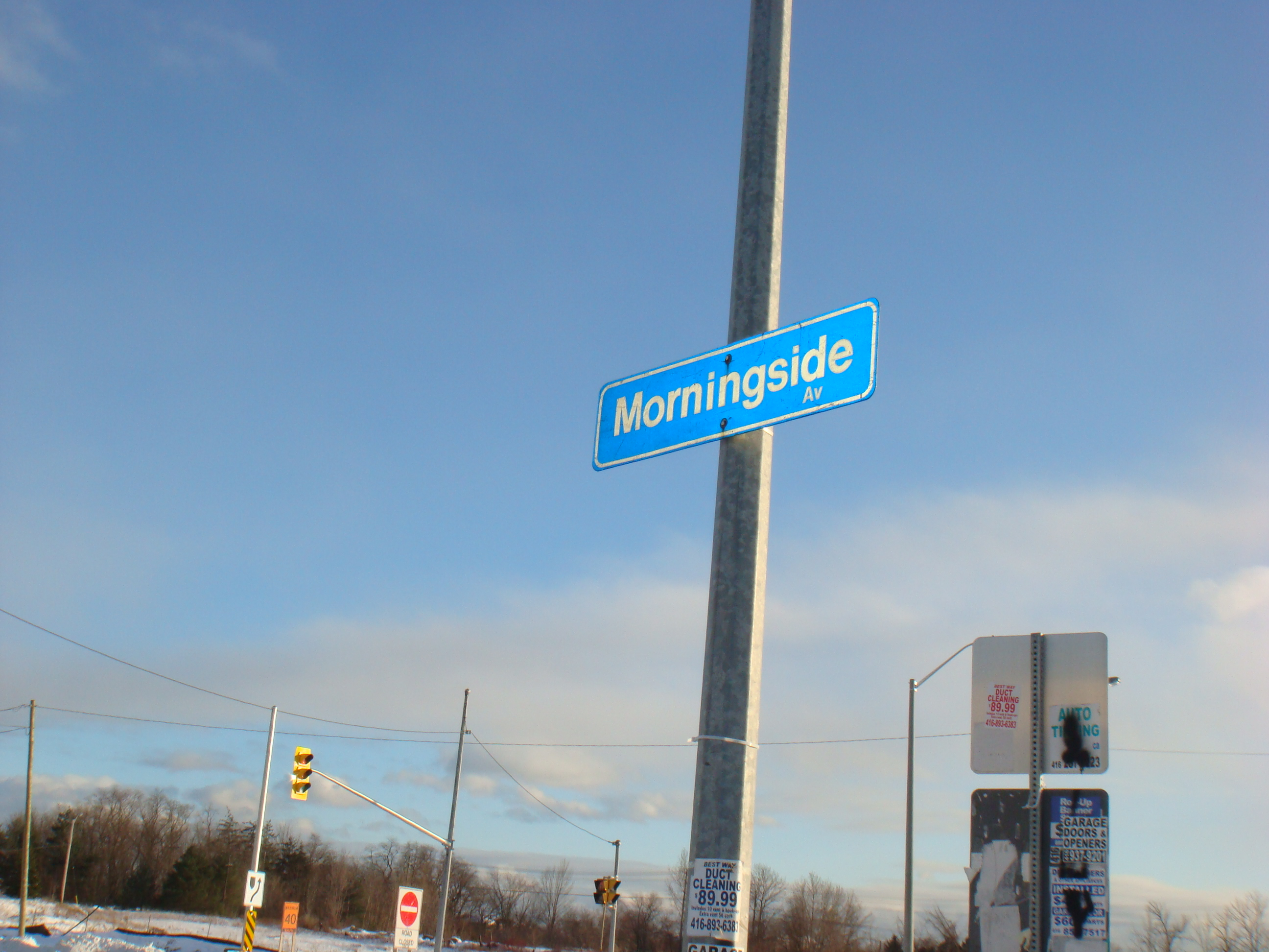 Morningside Avenue sign at Finch Avenue, Toronto ON